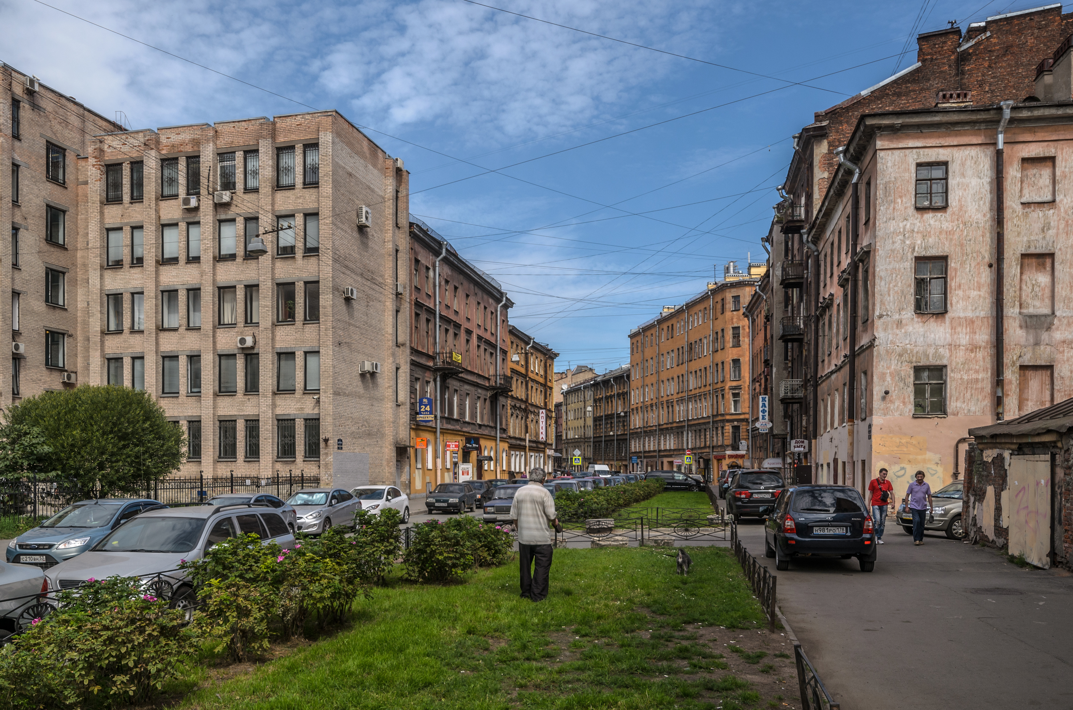 Dostoevskogo Street in Saint Petersburg